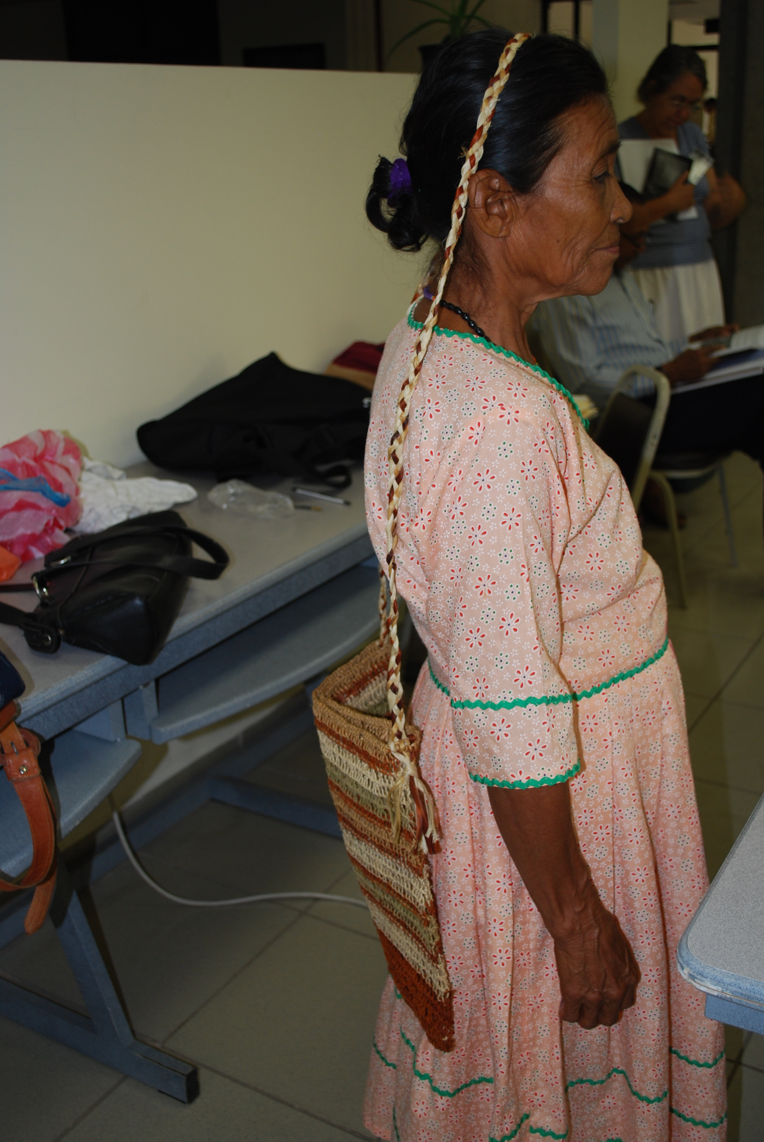 Juana Hernández Torres demonstrating the use of a hand woven carry bag